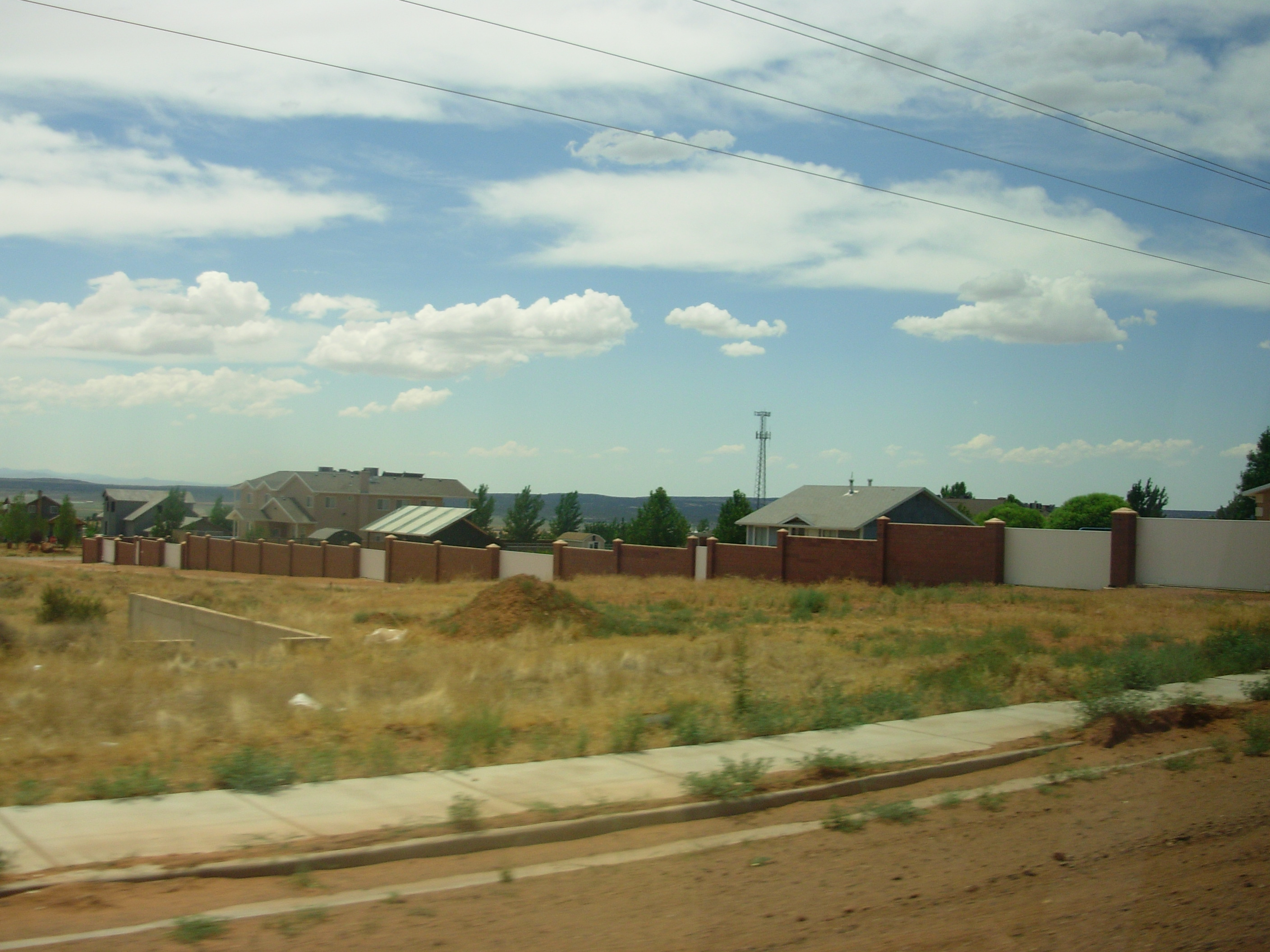 Streamline1989 03:06, 27 December 2006 (UTC)